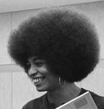 ADN-ZB / Koard 11.9.72 Berlin: Erich Honecker empfing Angela Davis. - Der Erste Sekretär des ZK der SED, Erich Honecker, empfing am 11.9.72 die amerikanische Bürgerrechtskämpferin Angela Davis. Während dieser Begegnung überreichte er der Vertreterin des anderen Amerikas die Einladung für die Weltfestspiele der Jugend und Studenten 1973 in der DDR-Hauptstadt.